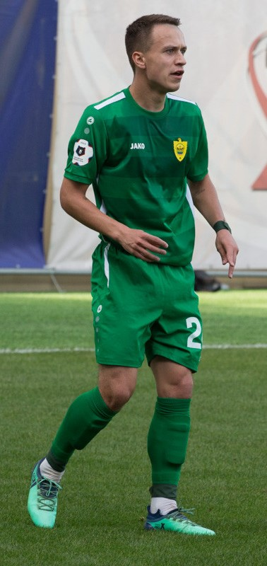 Konstantin Savichev